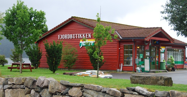 Fjordbutikken: a grocery shop i Naustdal